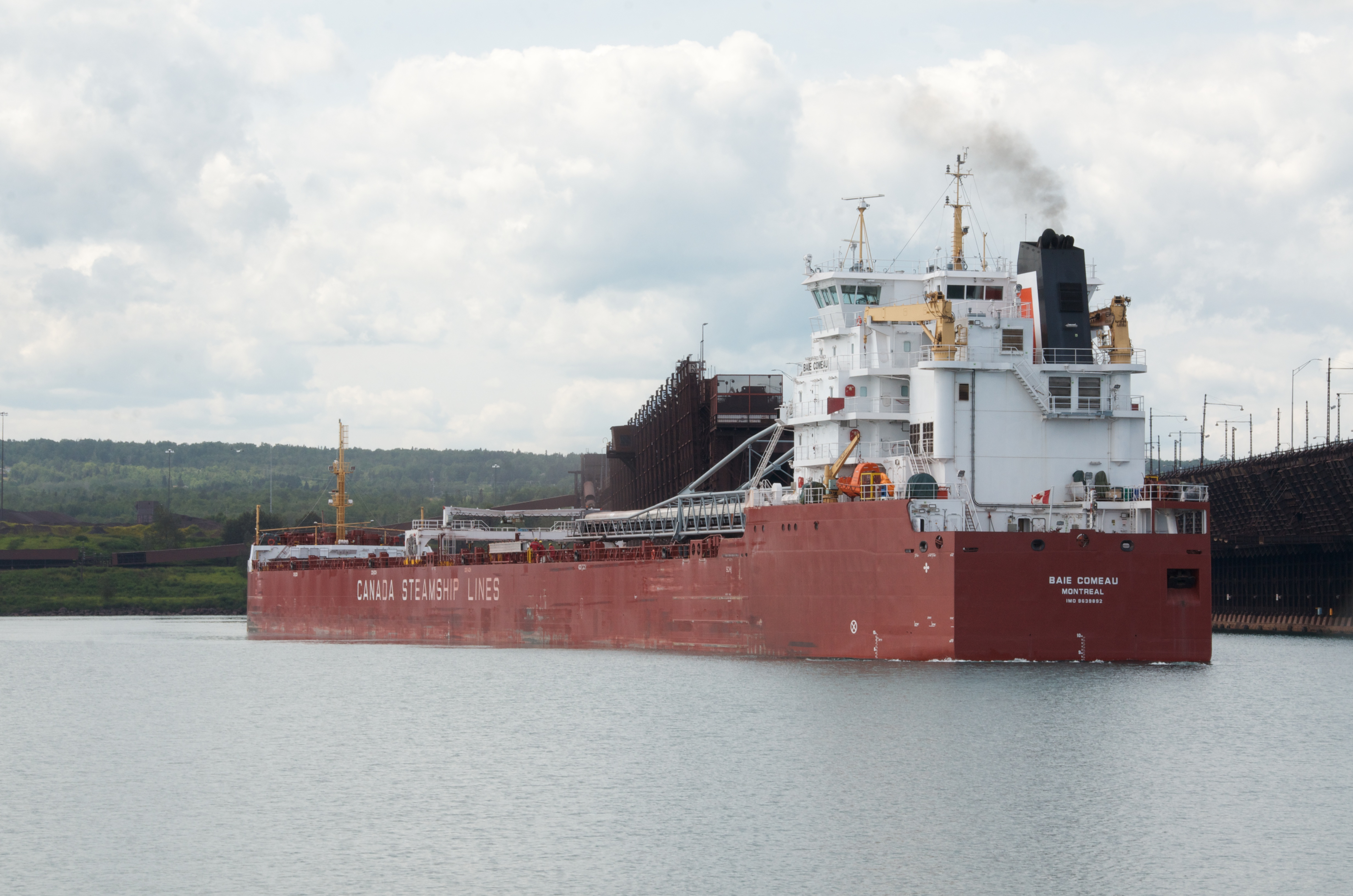 MV Baie Comeau - “Trillium” class vessels built for Canadian Steamship Lines (CSL), built in China in 2013.